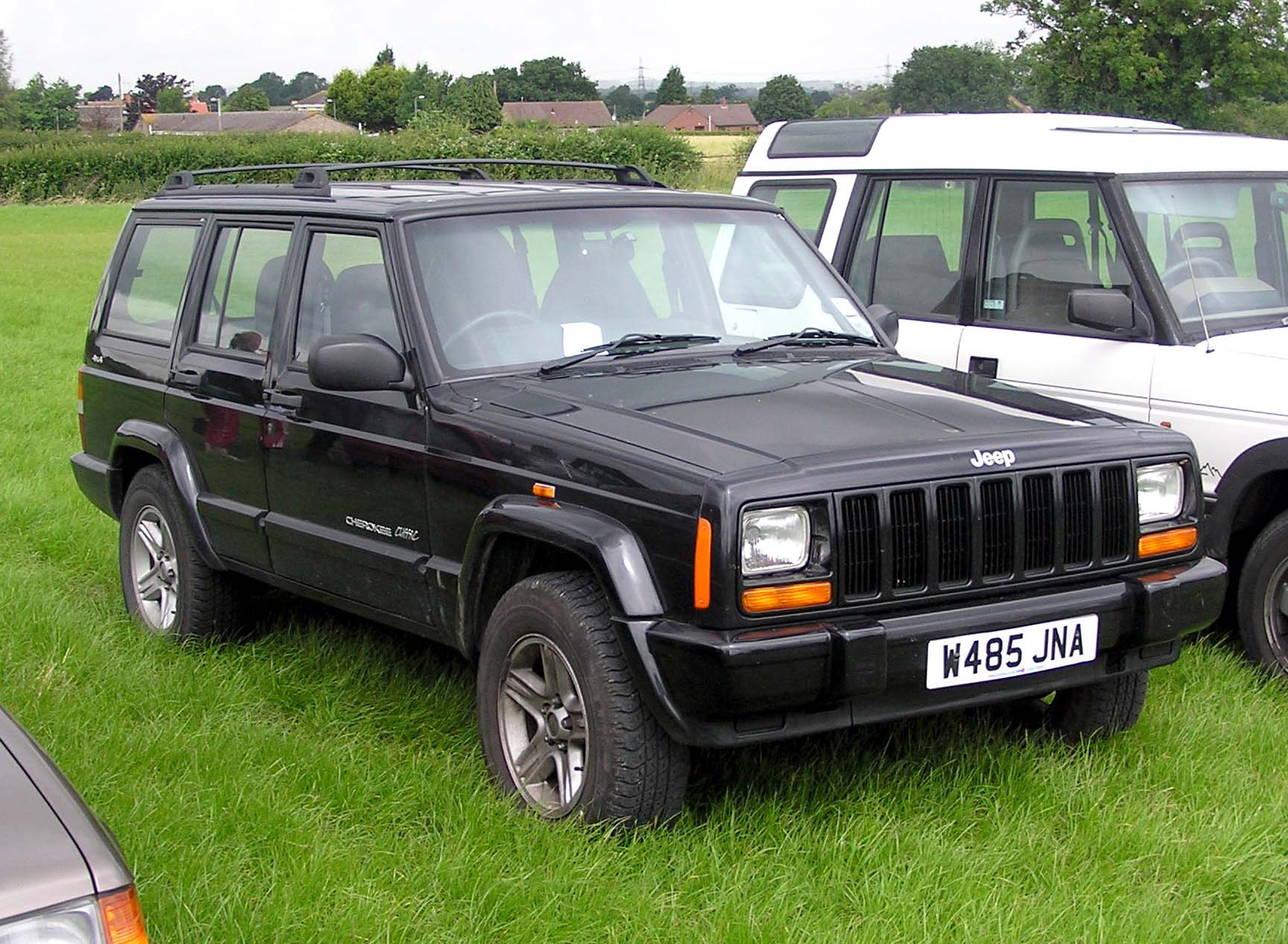 (Year 2000) Jeep Cherokee at Coalpit Heath car show, near Bristol, England. Taken by Adrian Pingstone in July 2004 and released to the public domain.